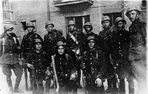 Ukrainian collaborators from the 115 Schutzmannschaft Battalion in Kiev (1942)